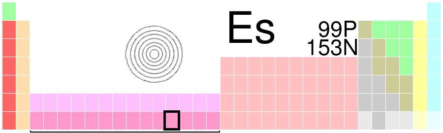 Periodic table with Einsteinium